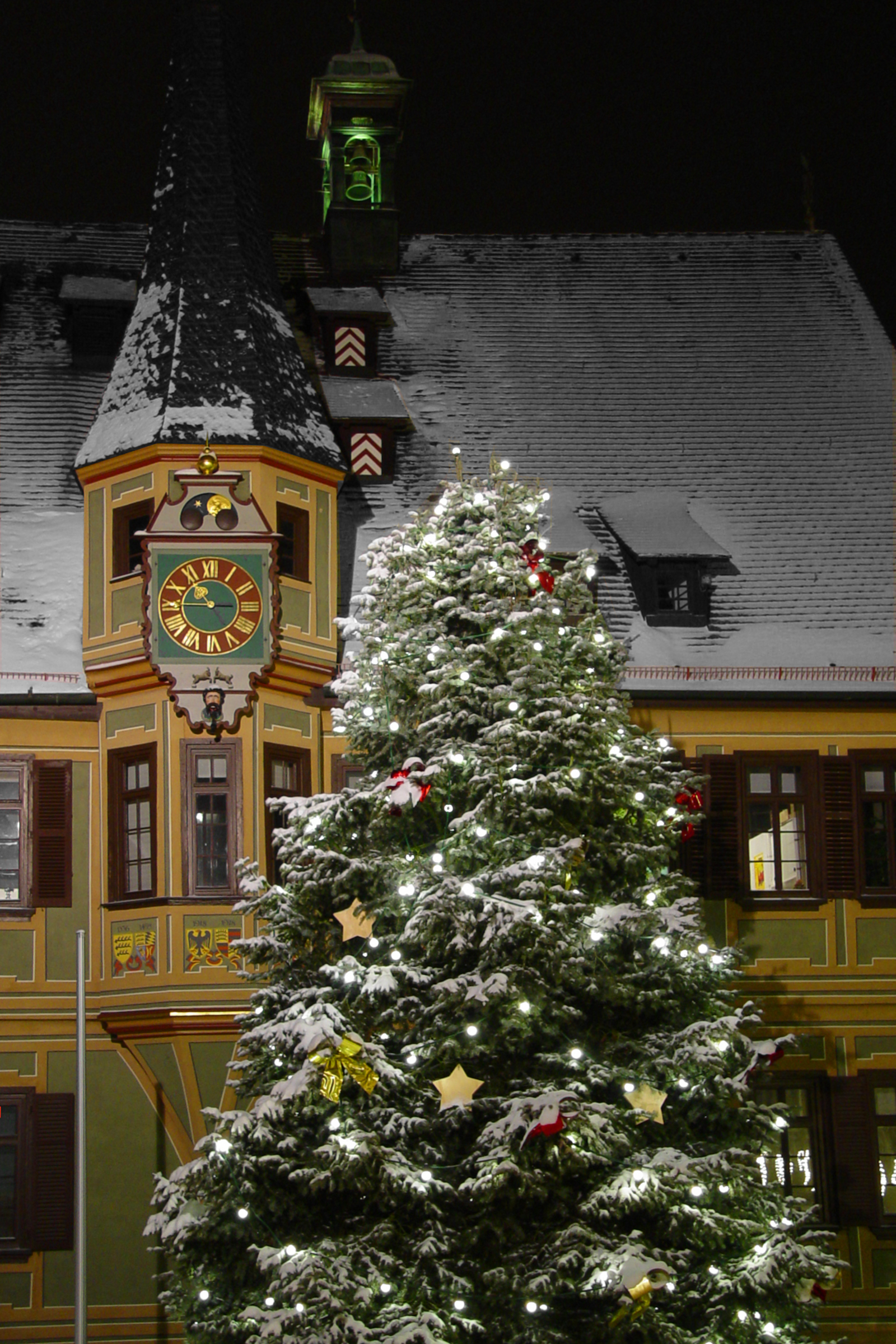 Astronomical clock at town hall of Bietigheim-Bissingen